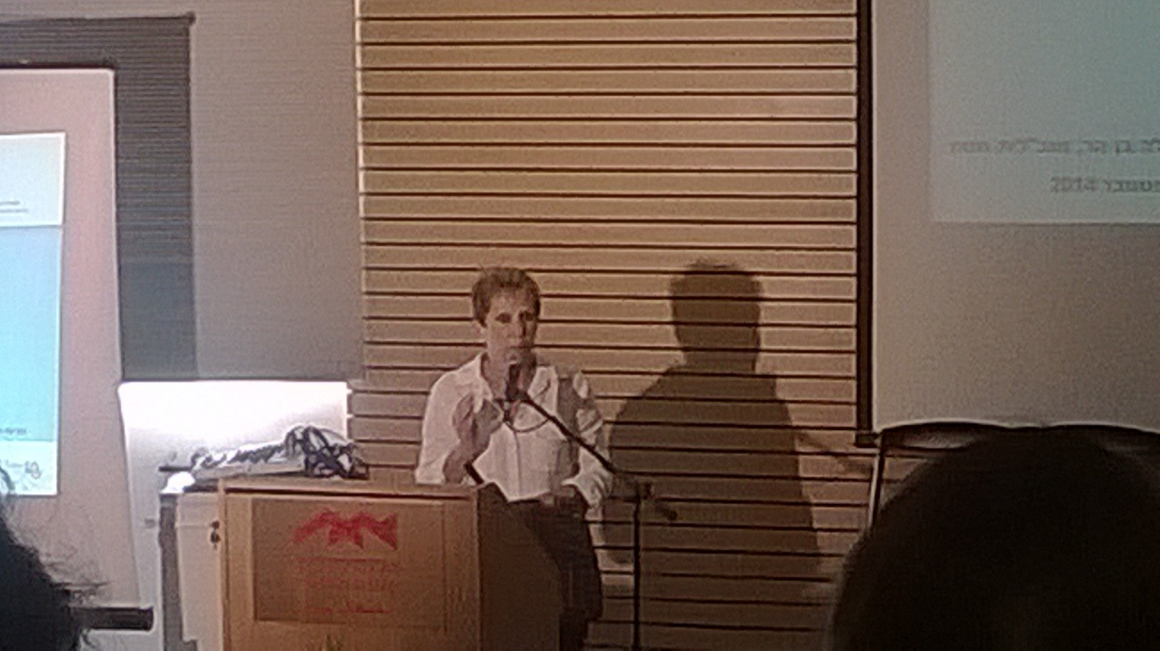 Gila Ben Har